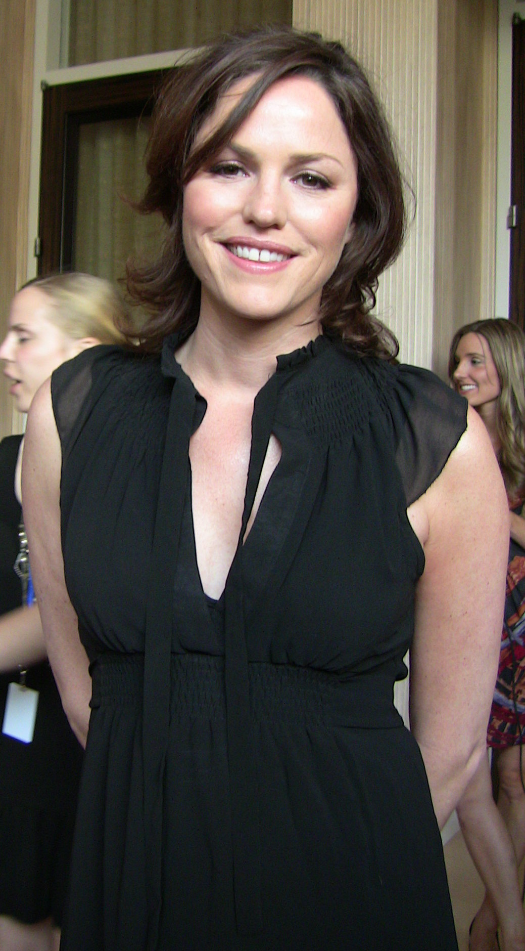 Actress Jorja Fox at 23rd Genesis Awards - Beverly Hills, California.